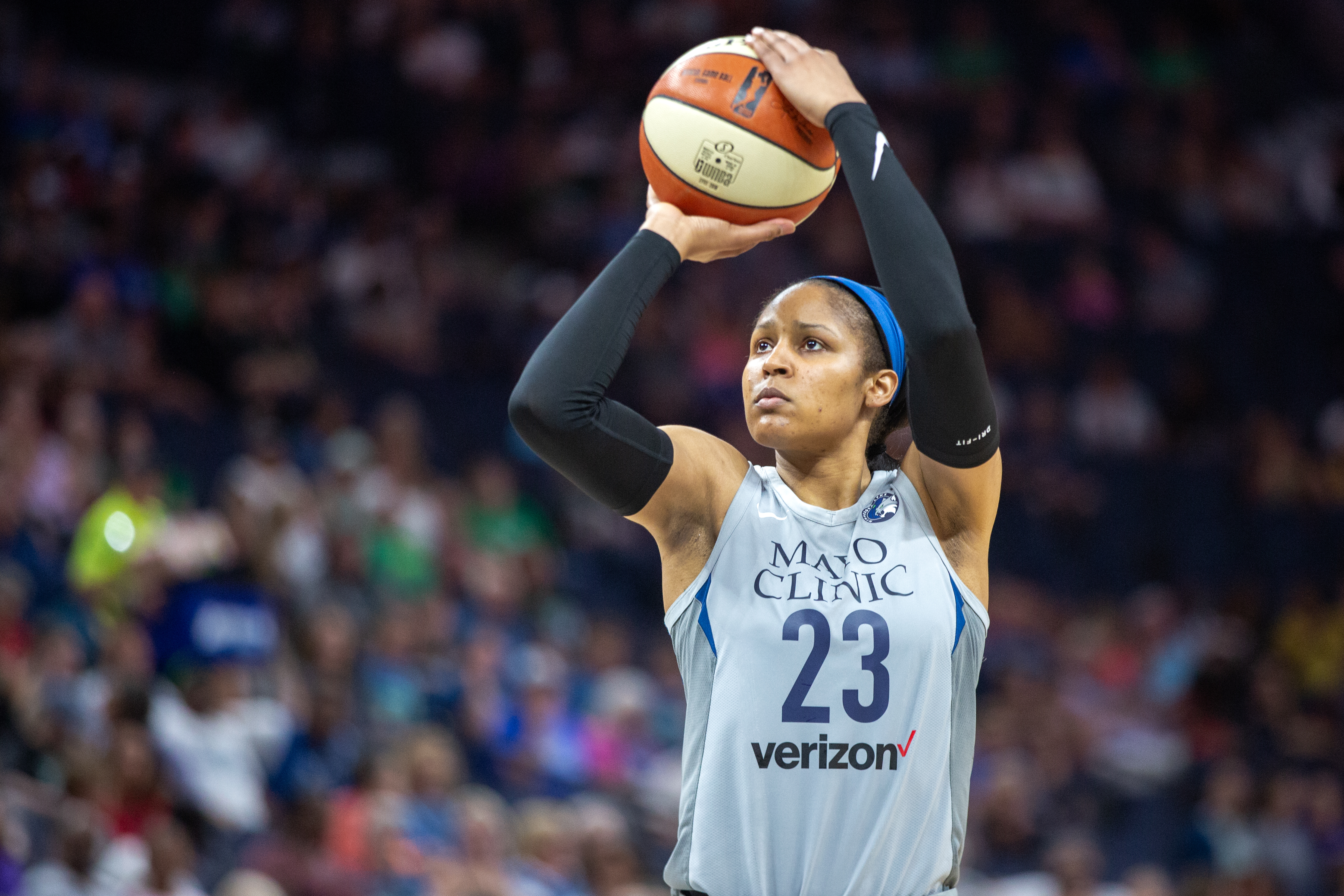 Minnesota Lynx player Maya Moore shoots a foul shot in a game against the Atlanta Dream